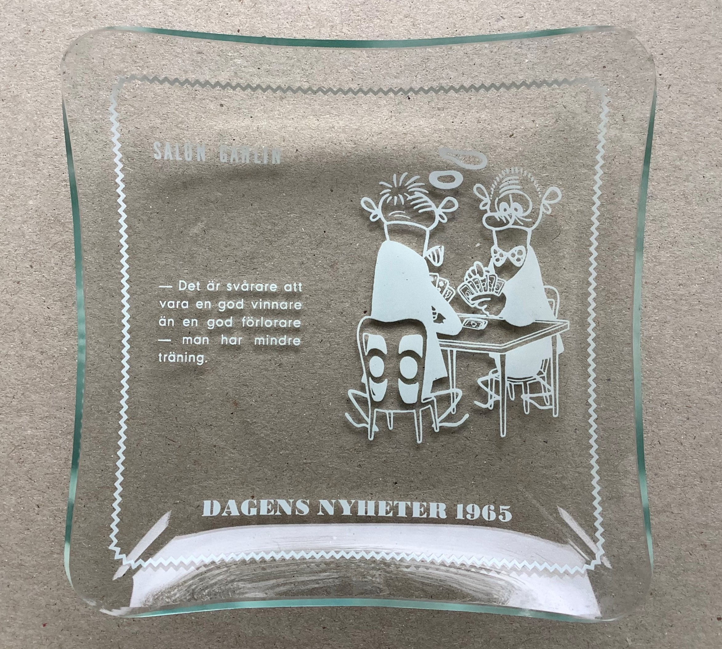 Salon Gahlin ashtray by Torvald Gahlin for Dagens Nyheter, 1965.